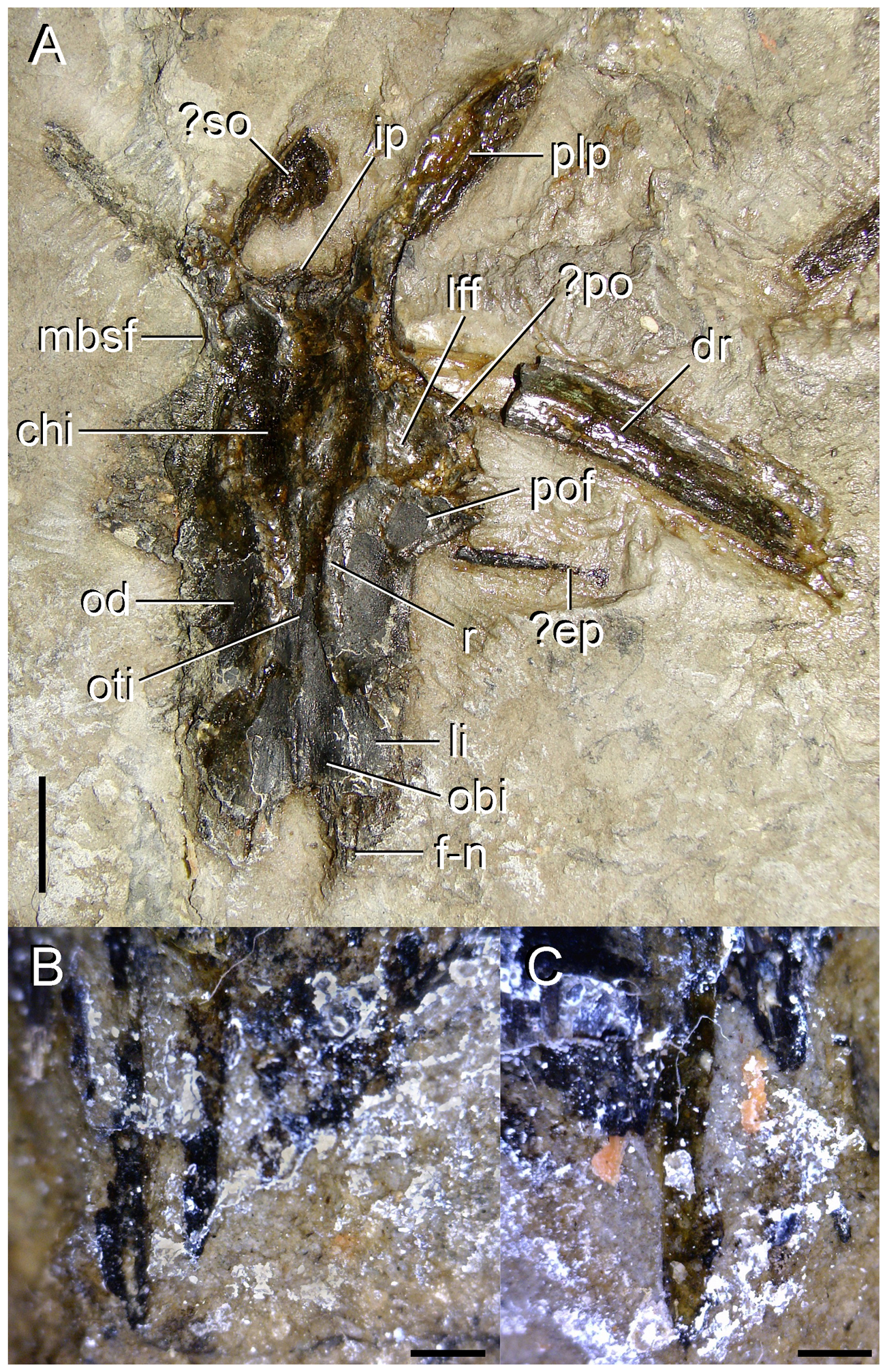 Figure 7. Skull roof and other bones of type specimen (UTGD 54655) of Tasmaniosaurus triassicus. A, skull roof bones in ventral view and close-up views of the ventral surfaces of the anterior margins of the B, left and C, right frontals. Abbreviations: ?ep, possible epipterygoid; ?po, probable postorbital; ?so, possible supraoccipital; dr, dorsal rib; f-n, fronto-nasal suture; chi, cerebral hemisphere impression; ip, interparietal; lff, laterosphenoid facet; li, lateral impression; mbsf, medial border of the supratemporal fenestra; obi, olfactory bulb impression; od, orbital depression; oti, olfactory tract impression; plp, posterolateral process of the parietal; pof, postfrontal; r, ridge. Scale bars equal 1 cm (A) and 1 mm (B, C).